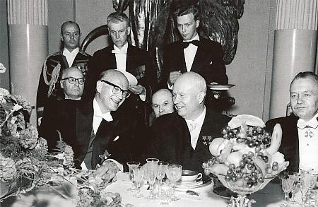 When Urho Kekkonen (left} turned 60 years old, Nikita Khrushchev (right of Kekkonen) wanted to come to Finland to congratulate his friend. The party at Tamminiemi went on until five in the morning.